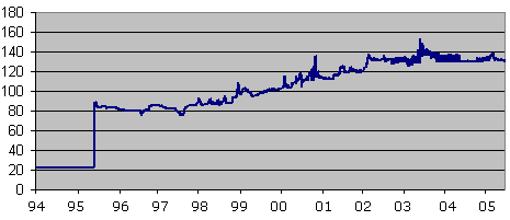 Rate of the Nigerian naira for 1 USD (1994-2005). Source: interbank exchange rates publicly available.